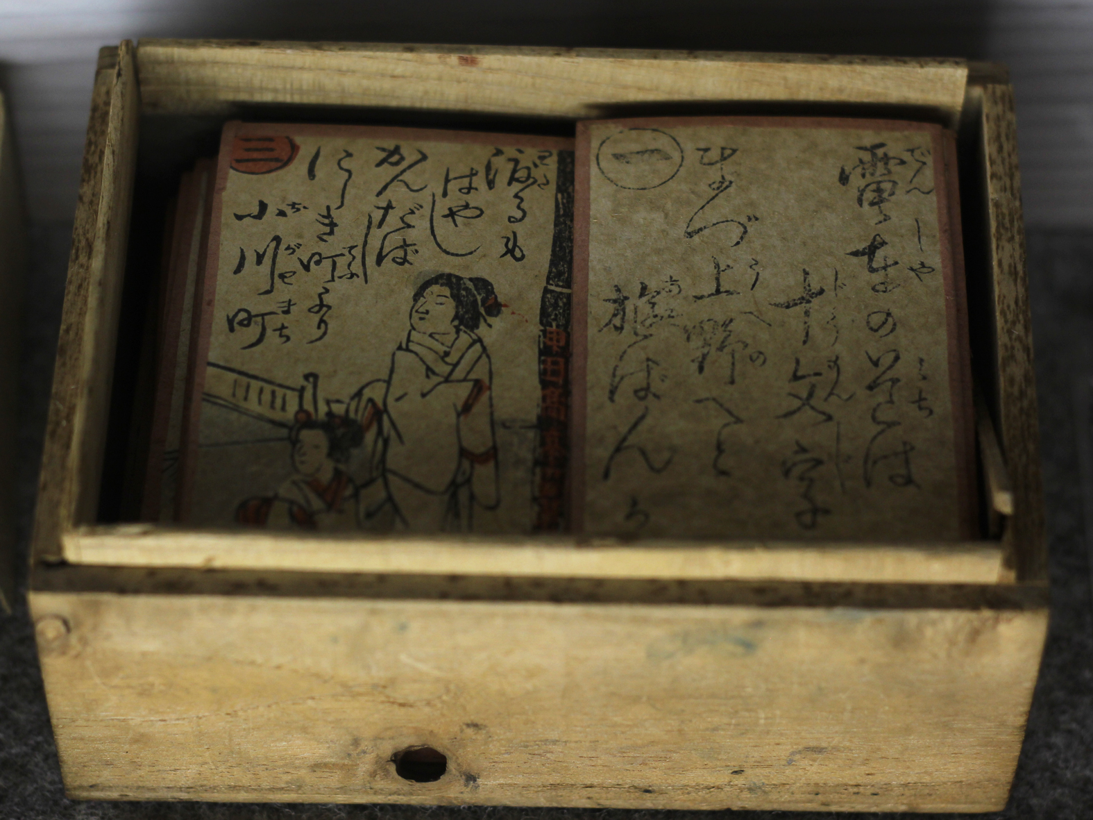 Box of Iroha (?) Karuta, probably Taisho period.